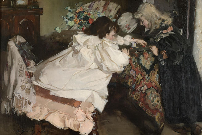 'Tiddley Winks' (1897) by William Somerville Shanks Tiddley Winks: oil on canvas, 59.5 by 90 cm. - 23 1/2 by 35 1/2 in. Sotheby's sale catalogue (2008) reads: William Somerville Shanks's painting Tiddley Winks, undoubtedly his masterpiece - showing two children playing the game in a comfortably furnished interior - displays the bravura brushwork and rich colouring associated with the Scottish school of painters in the 1890s and early years of the twentieth century, and reveals the debt of those artists both to French Impressionism and a longstanding painterly tradition dating back to seventeenth-century masters such as Velasquez and Frans Hals.""